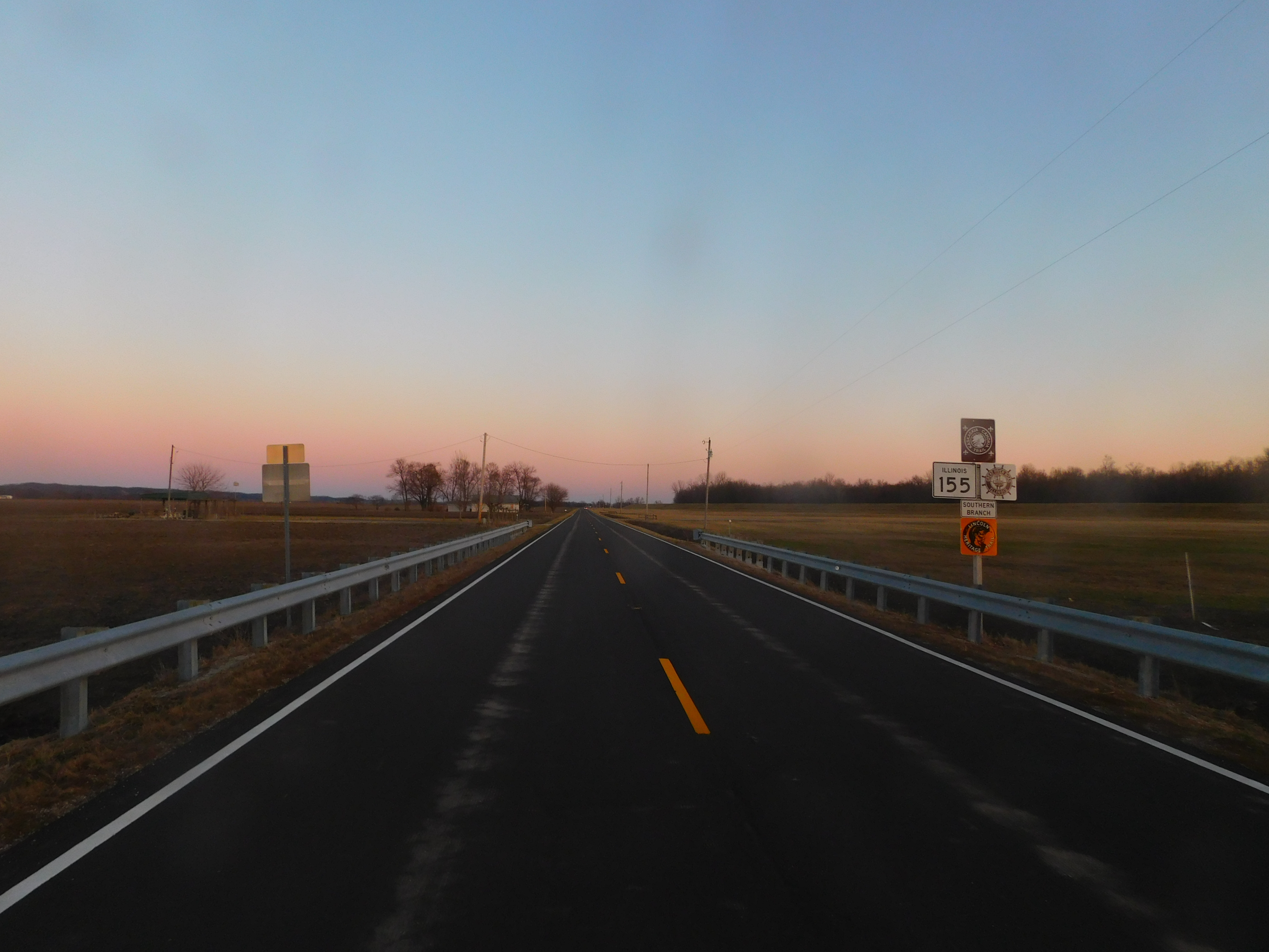 Route 155 at the end/beginning of its route, Fort de Chartres in Prarie du Rocher.